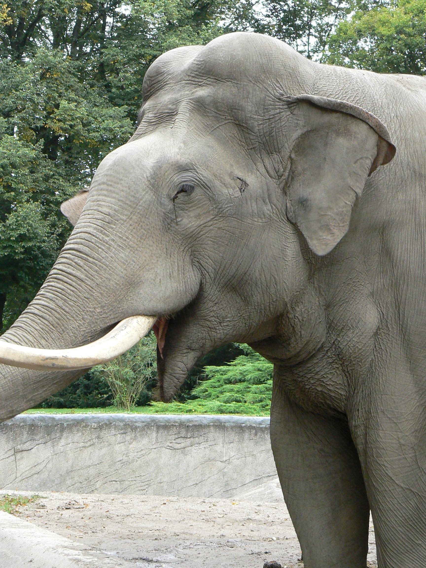 asian elephant at the zoo in hamburg, germany